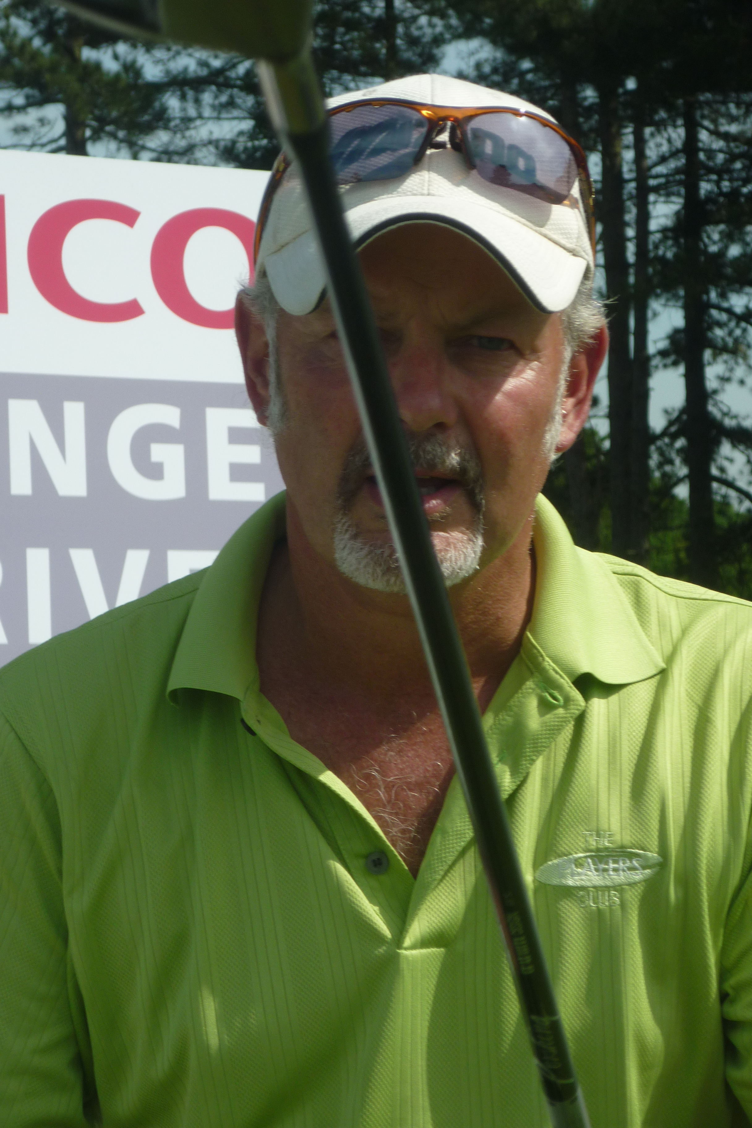 Gordon Brand Jnr at Van Lanschot Senior Open